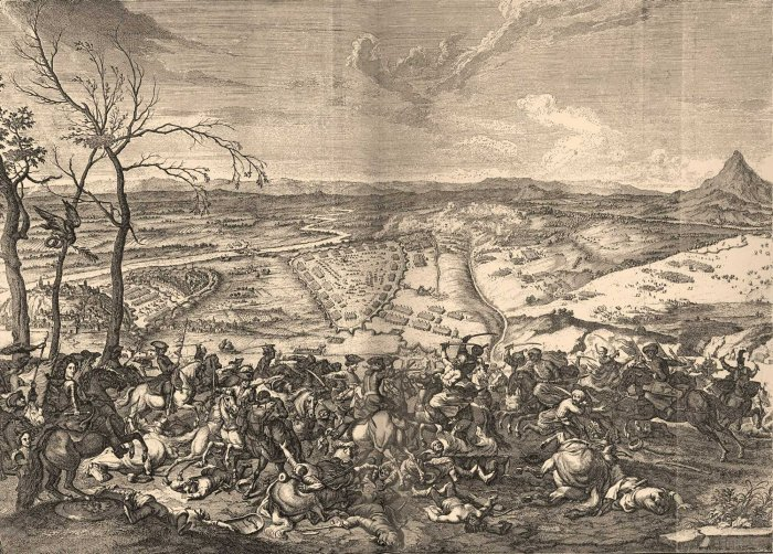 Battle of Belgrade in 1717